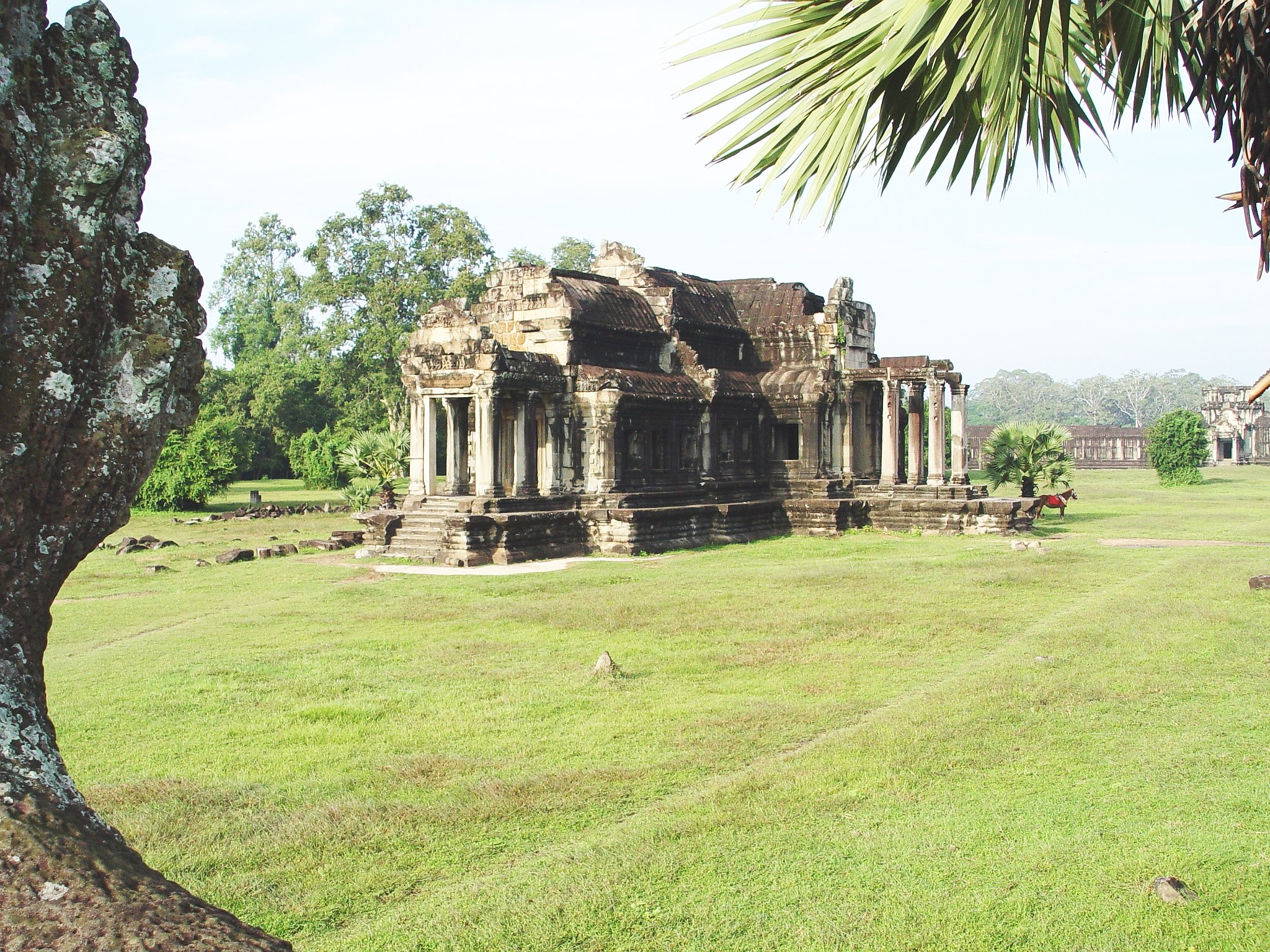 One of the two libraries within the Angor Wat complex, this towards the South Western corner. Note the intact roof made from carved stone tiles. This particular building is in very good condition with little graffiti, and even in places retains traces of the original colouring upon features on the walls as well as sections of the stone-slab cielings.